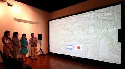 Seiichi Nakamura, Professor of the Center for Cultural Resource Studies, Kanazawa University, explained Maya Site of Copán to Princess Mako and Ana García Carías at Copán Digital Museum in Copán Ruinas Municipality, Copán Department on December 7, 2015.